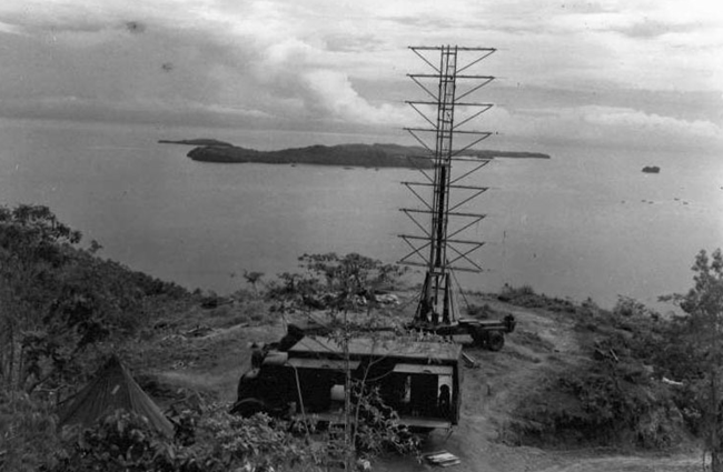 SCR-270 radar installation. Operators at a similar installation at Opana on the northern tip of Oahu detected and tracked unknown aircraft, starting around 7:02 am, that were approaching from the North. These turned out to beJapanese planes on their way to attack Pearl Harbor about 50 minutes later. However their report was not acted upon.